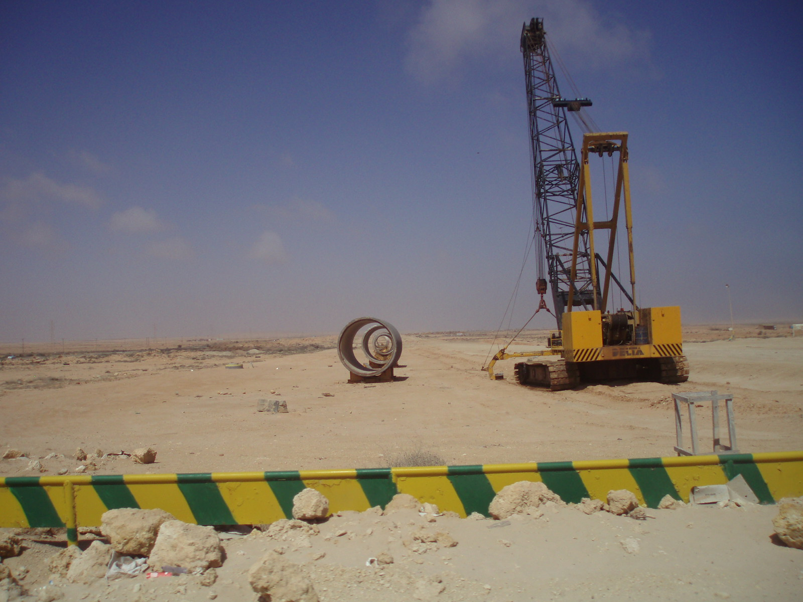 The Great Man-Made River (GMR, النهر الصناعي العظيم) is a network of pipes that supplies water from the Sahara Desert in Libya, from the Nubian Sandstone Aquifer System fossil aquifer. It is the world's largest irrigation project. It is the largest underground network of pipes (2820 km) and aqueducts in the world. It consists of more than 1,300 wells, most more than 500 m deep, and supplies 6,500,000 m3 of fresh water per day to the cities of Tripoli, Benghazi, Sirte and elsewhere. The Libyan leader Muammar Gaddafi described it as the "Eighth Wonder of the World.